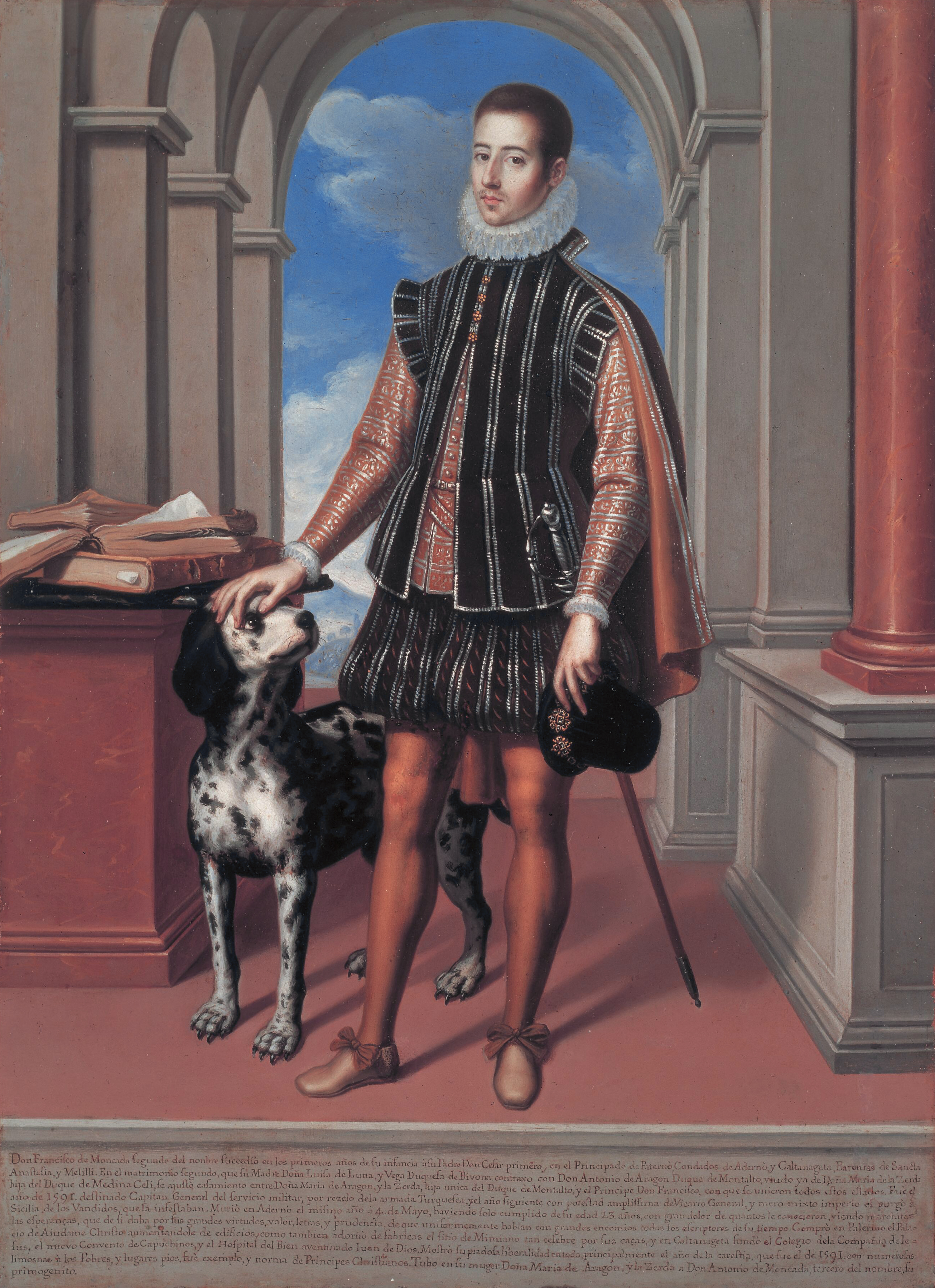 Francesco Moncada II (?-1592) oil on copper 36 x 26 cm 1650 - 1660